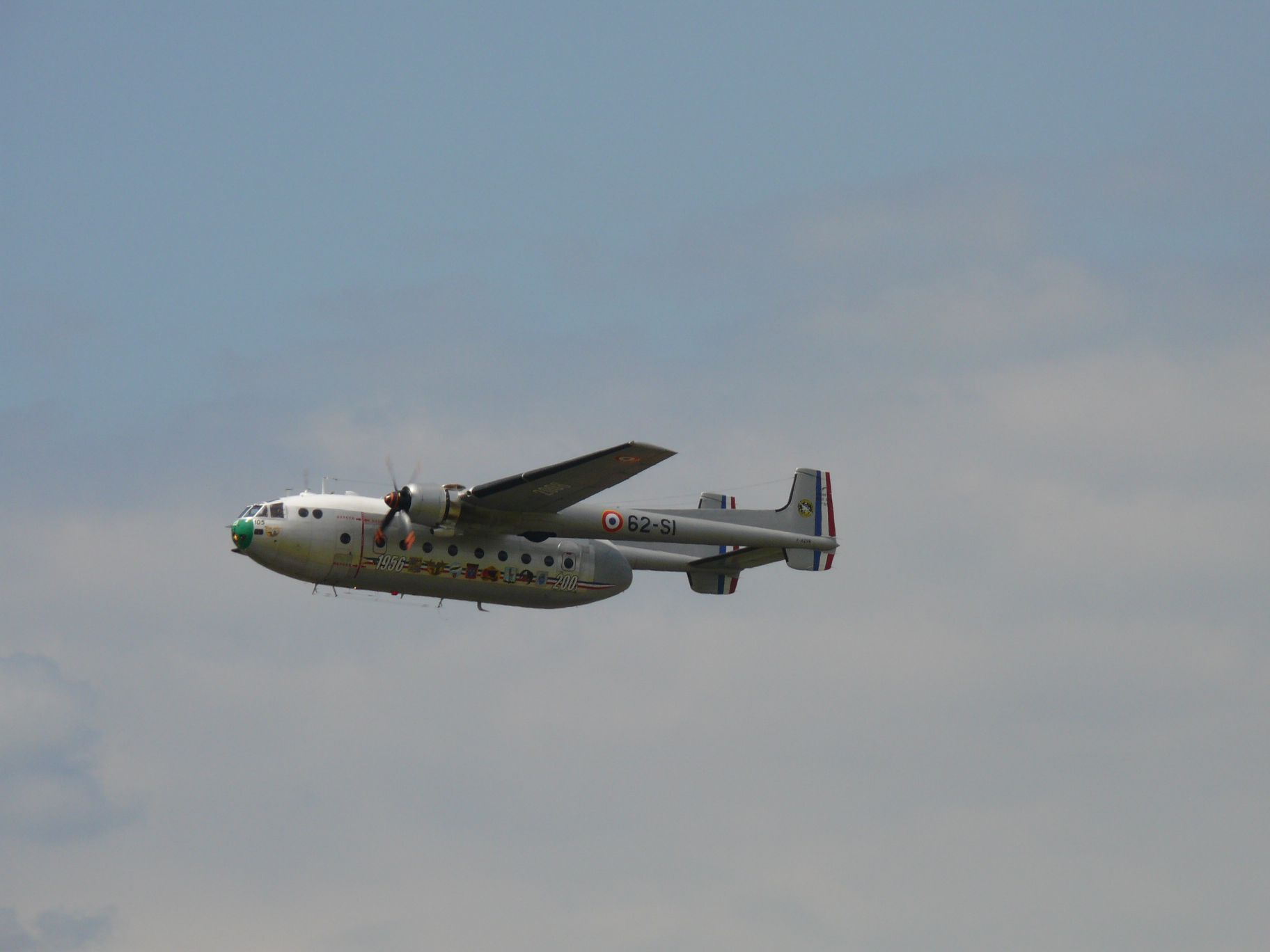 Nord Noratlas plate at 2009 Paris Air Show.